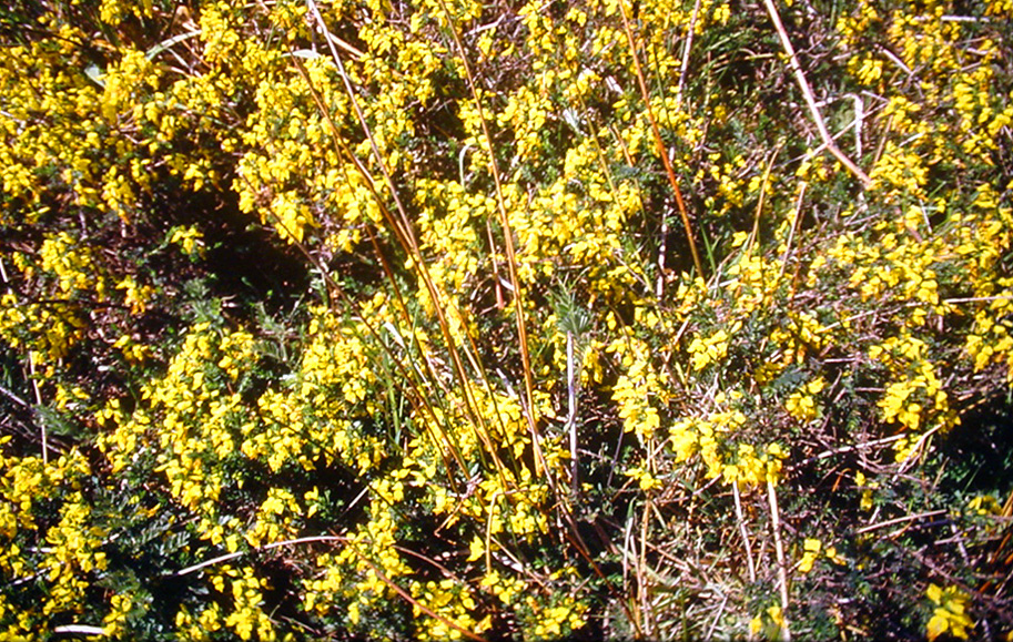 Genista anglica subsp. anglica in one of the Natural reserves of "Plateau d'Helfaut", at Blendecques or Heurginghem in the north of France, near St Omer, photographed on the edge of a pound.